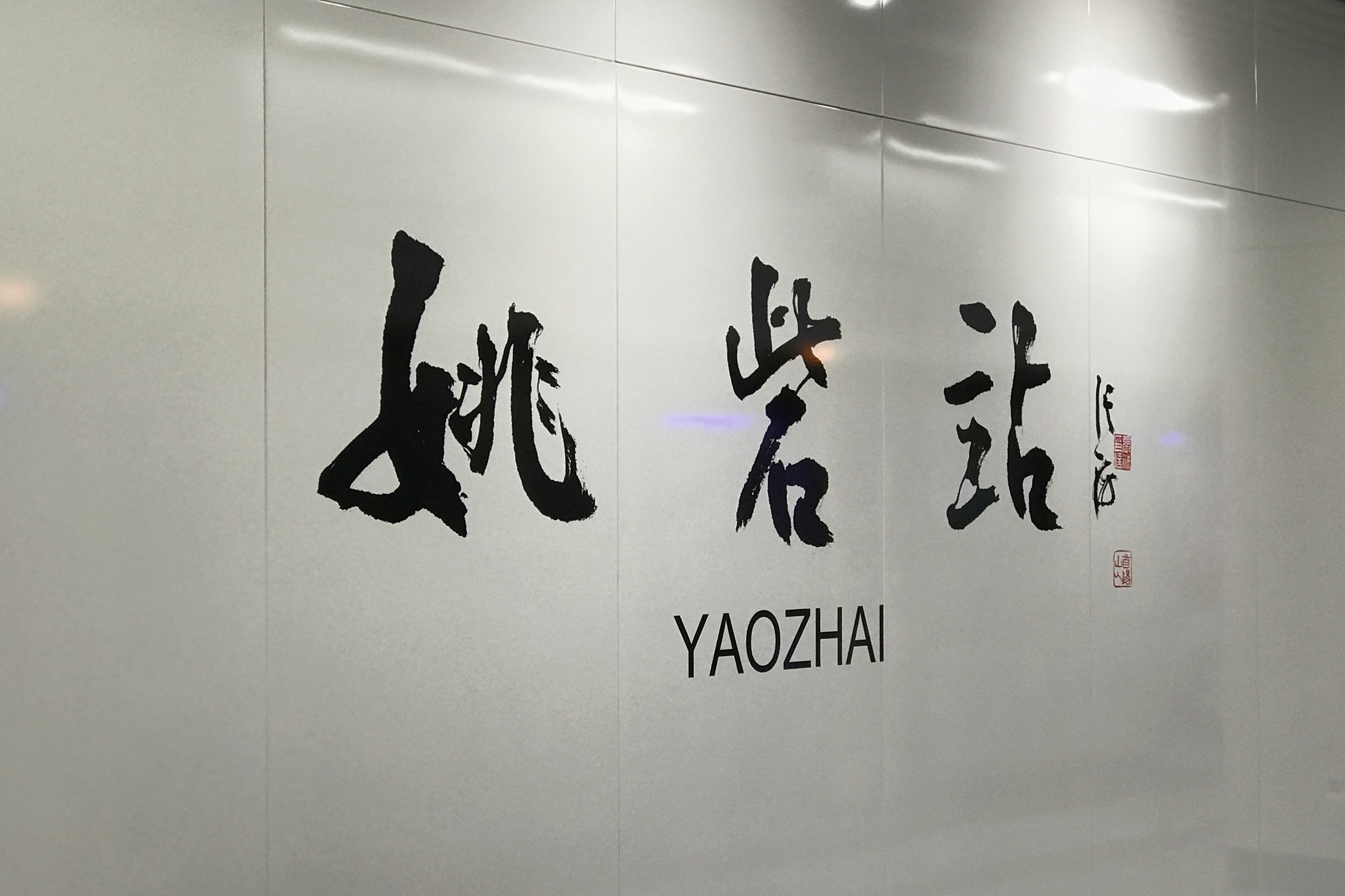 Calligraphy of Yaozhai Station